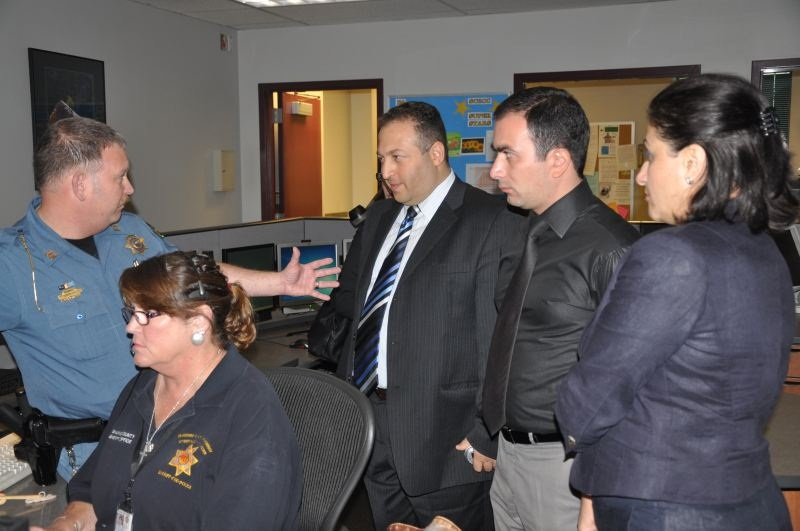 A delegation from the Republic of Armenia is briefed on the operations of the Shawnee County, Kan., 911 call center.